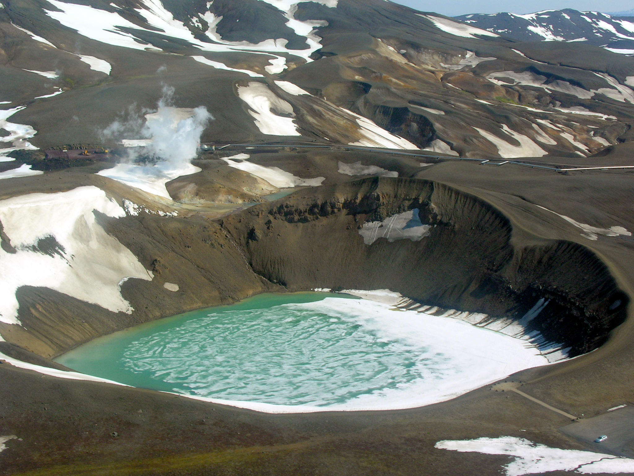 Aerial View of Viti Crater